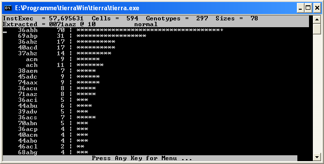 Tierra simulation running (parasits are number one in this population)